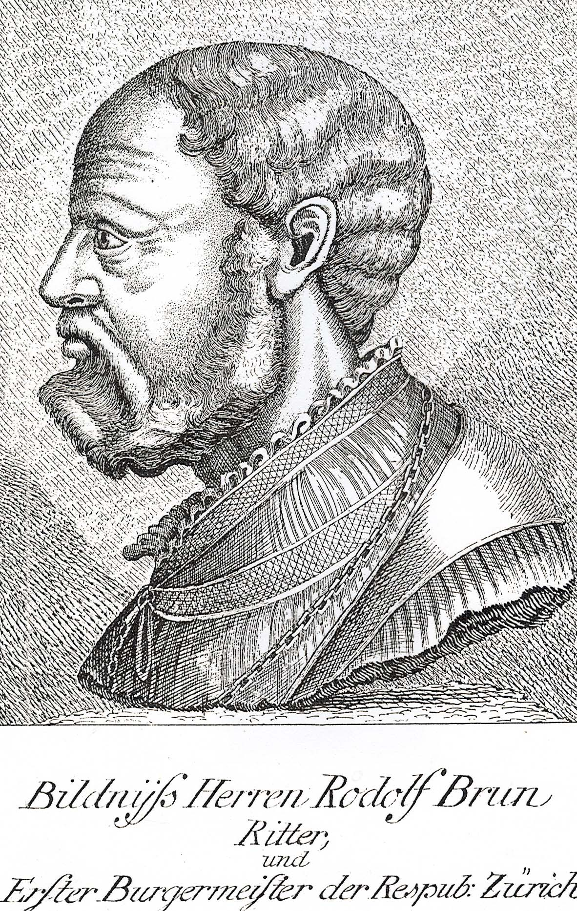 Portrait of Rudolf Brun (* ca. 1290–1300; † 17. September 1360 in Zürich) , first mayor of Zürich. Original caption: "Portrait of Sir Rodolf Brun, knight and first mayor of the republic of Zürich".